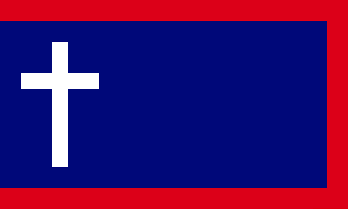 State Battle Banner of Missouri. It combines a blue field bordered in red with a white Roman cross. After being carried by several Confederate regiments in Missouri it has been called the Missouri Battle Flag.